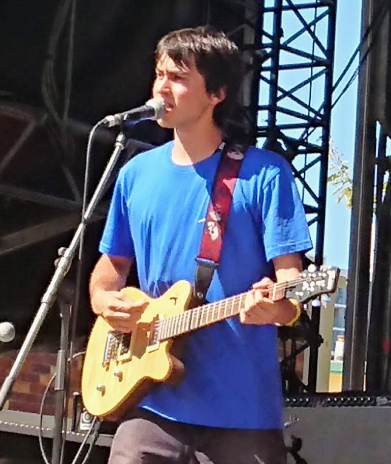 (Sandy) Alex G performing at Brisbane Laneway Festival in 2018